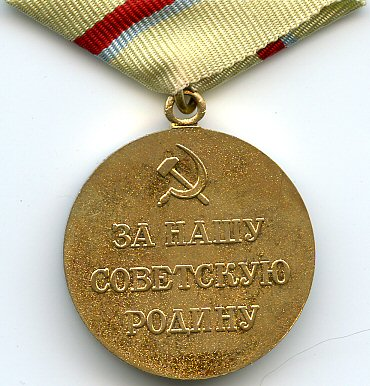 Reverse of the Soviet WW2 campaign medal "For the Defence of Kiev" (1961)